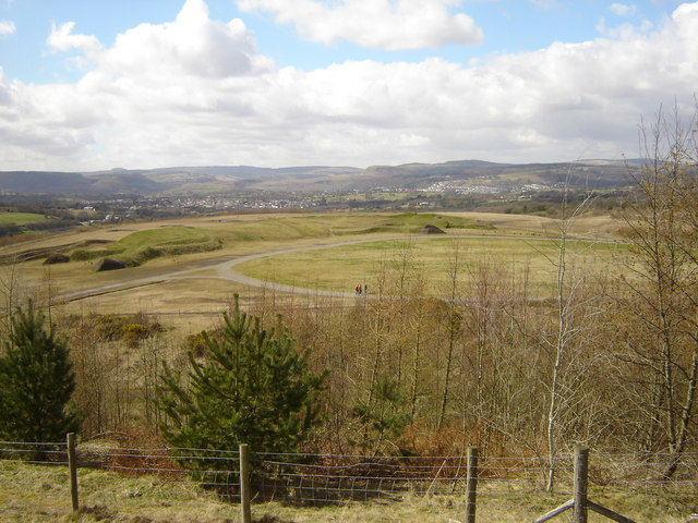 Parc Penallta - Sultan the Pit pony